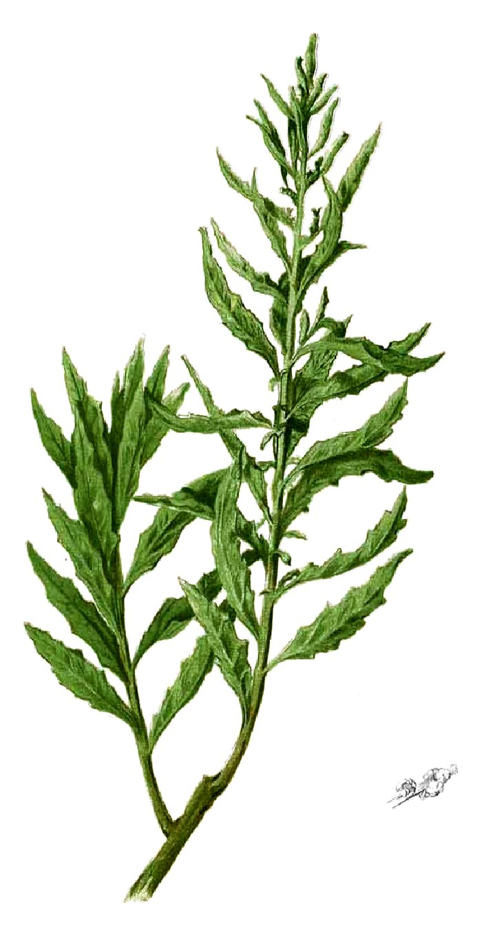 Plate from book, showing Dysphania ambrosioides (L.) Mosyakin & Clemants (Syn.: Chenopodium ambrosioides L.)